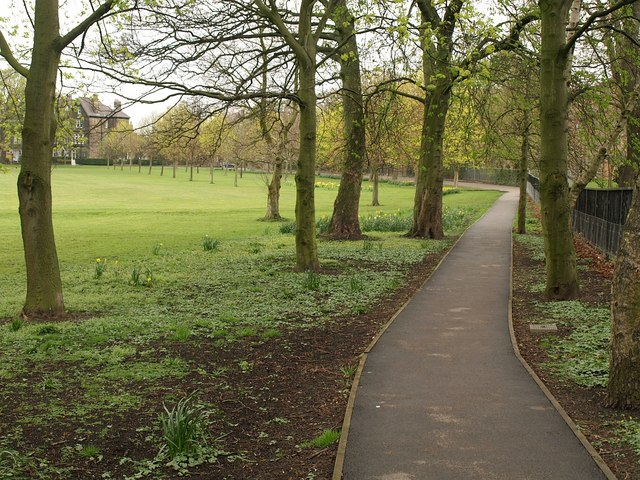 A corner of The Stray Taken just north of Wetherby Road, as the path along the edge of The Stray approaches Willaston Road.